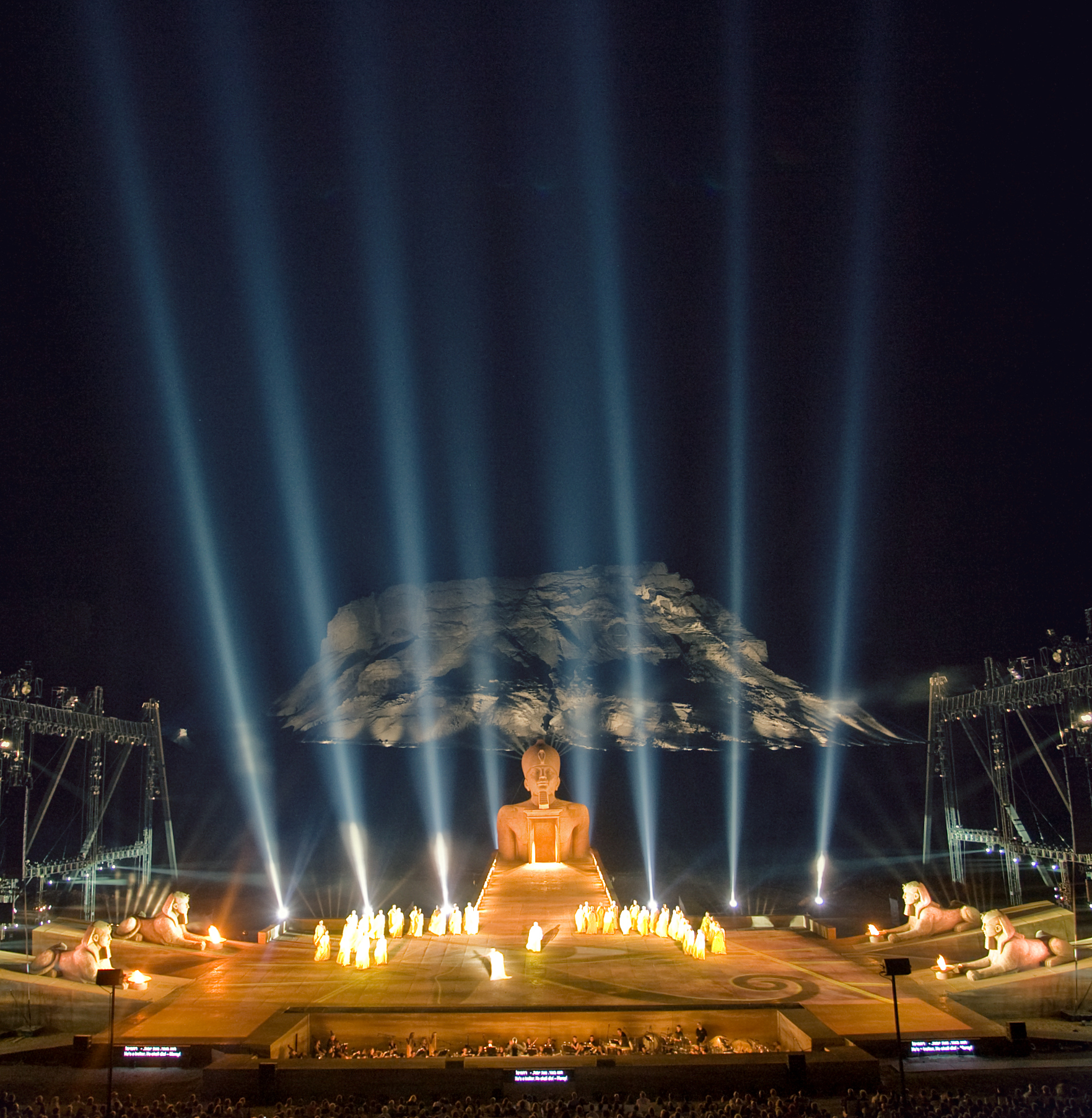 Aida at Masada אאידה במצדה 2011 The Israel Opera at Masada Conductor Daniel Oren Director Charles Roubaud Set Designer Emmanuelle Favre Costume Designer Denise (Katia) Duflot Sound Designer Bryan Grant Lighting Designer Avi